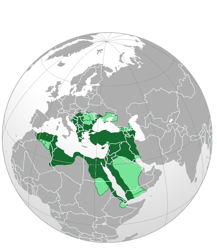 The largest borders of the Ottoman Empire (1683)